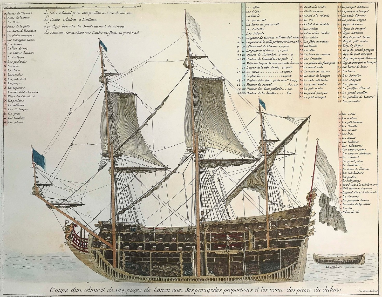 Detail shot of a 104-gun French three-deck flagship. Drawing by Henri Sbonski of Passebon published around 1690.